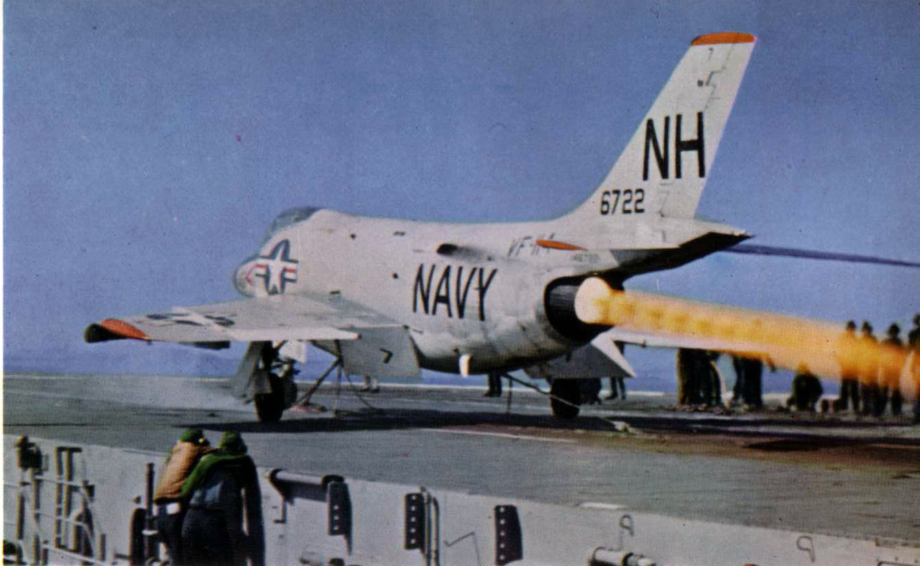 A McDonnell F3H-2 Demon (BuNo. 146722) of Fighter Squadron VF-114 "Executioners" launching from the aircraft carrier USS Hancock (CVA-19). VF-114 was assigned to Carrier Air Group 11 (CVG-11) aboard the Hancock for a deployment to the Western Pacific from 16 July 1960 to 18 March 1961. Note the Allison J71-A-2E turbojet on afterburner druing the launch.